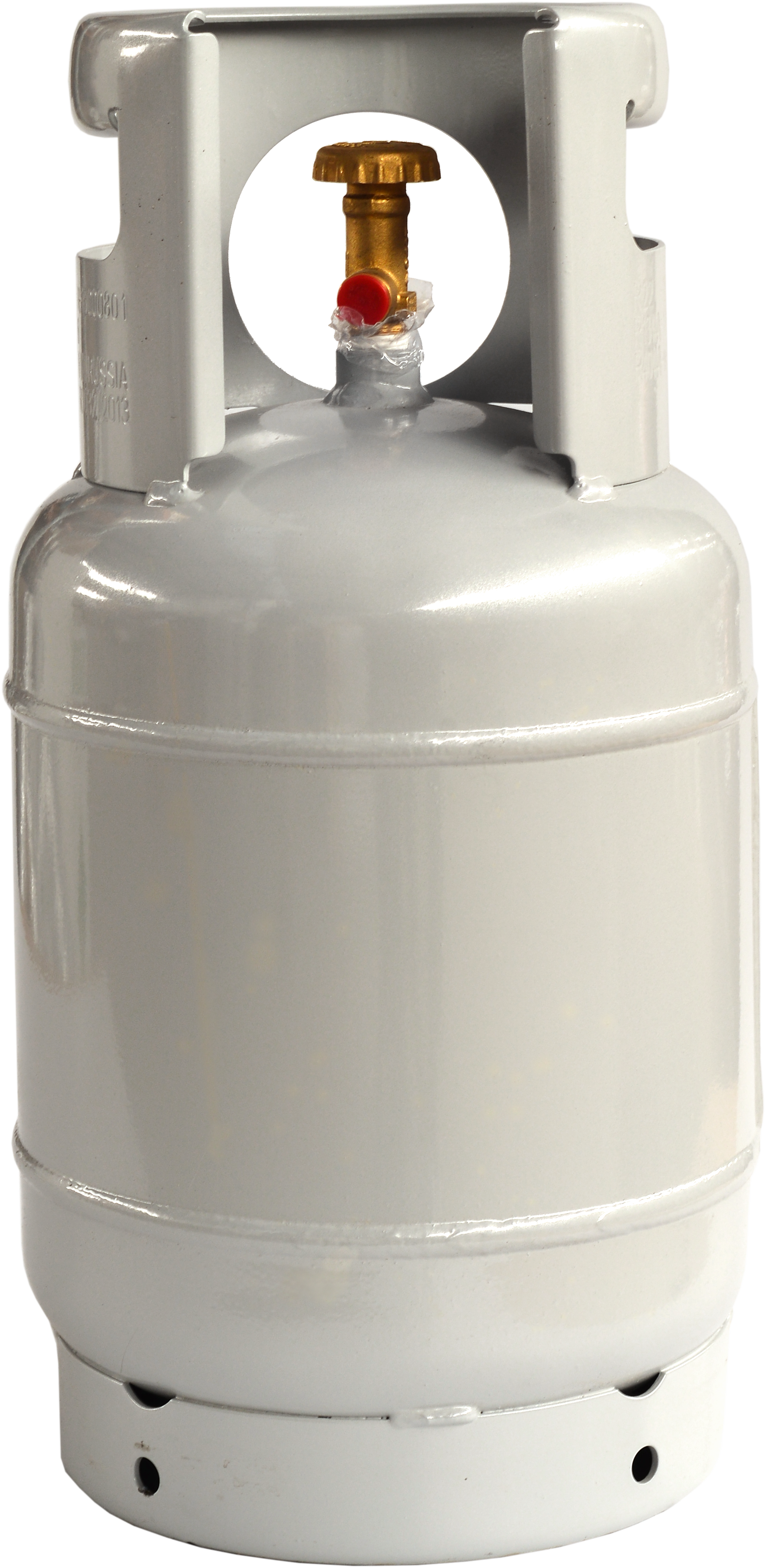 Refillable refrigerant cylinder for R22